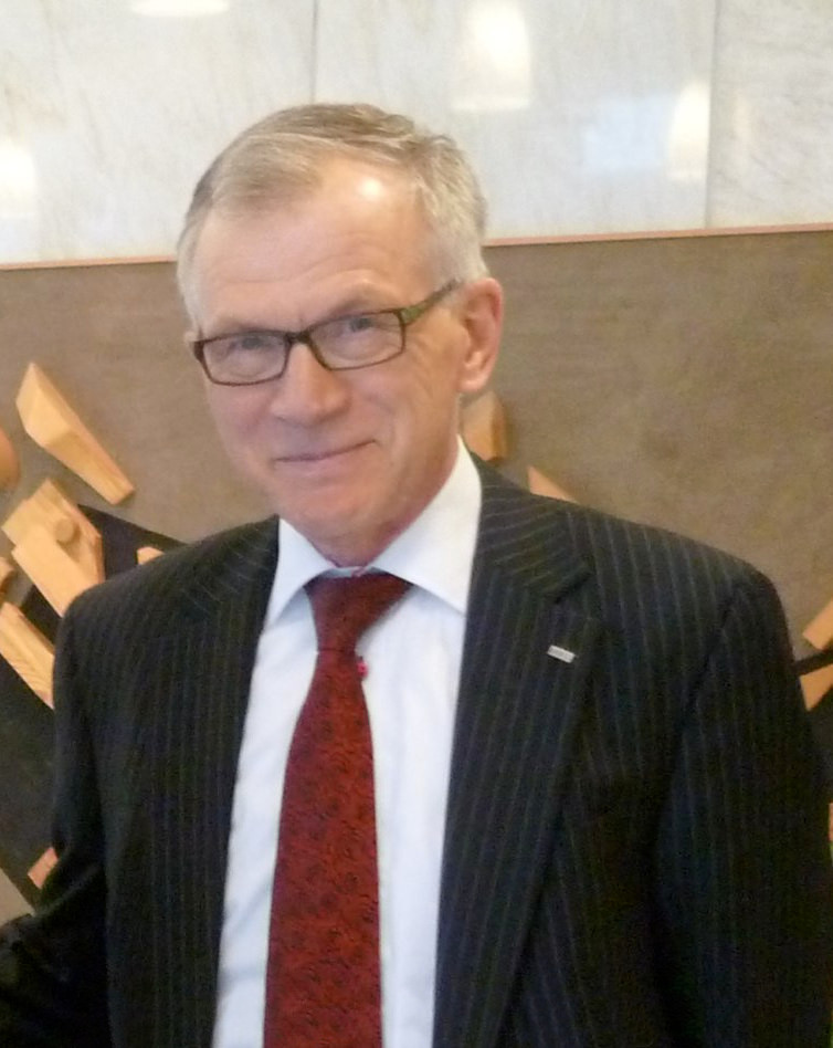 Former mayor Karl Petersen in Luleå, Sweden